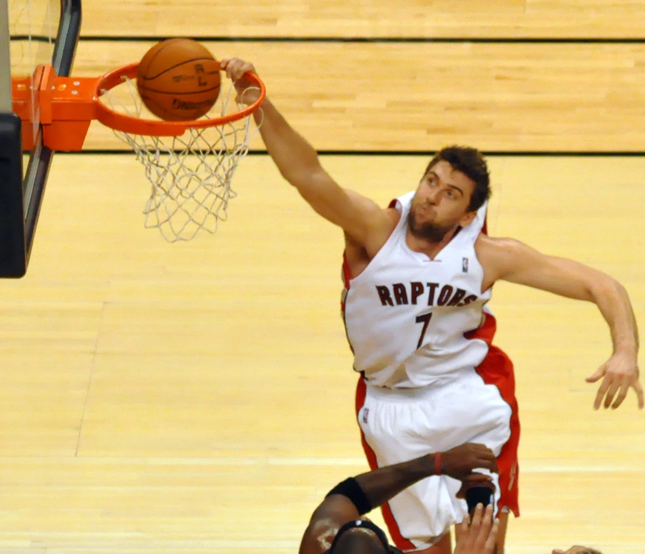 Andrea Bargnani dunk Toronto Raptors Miami Heat